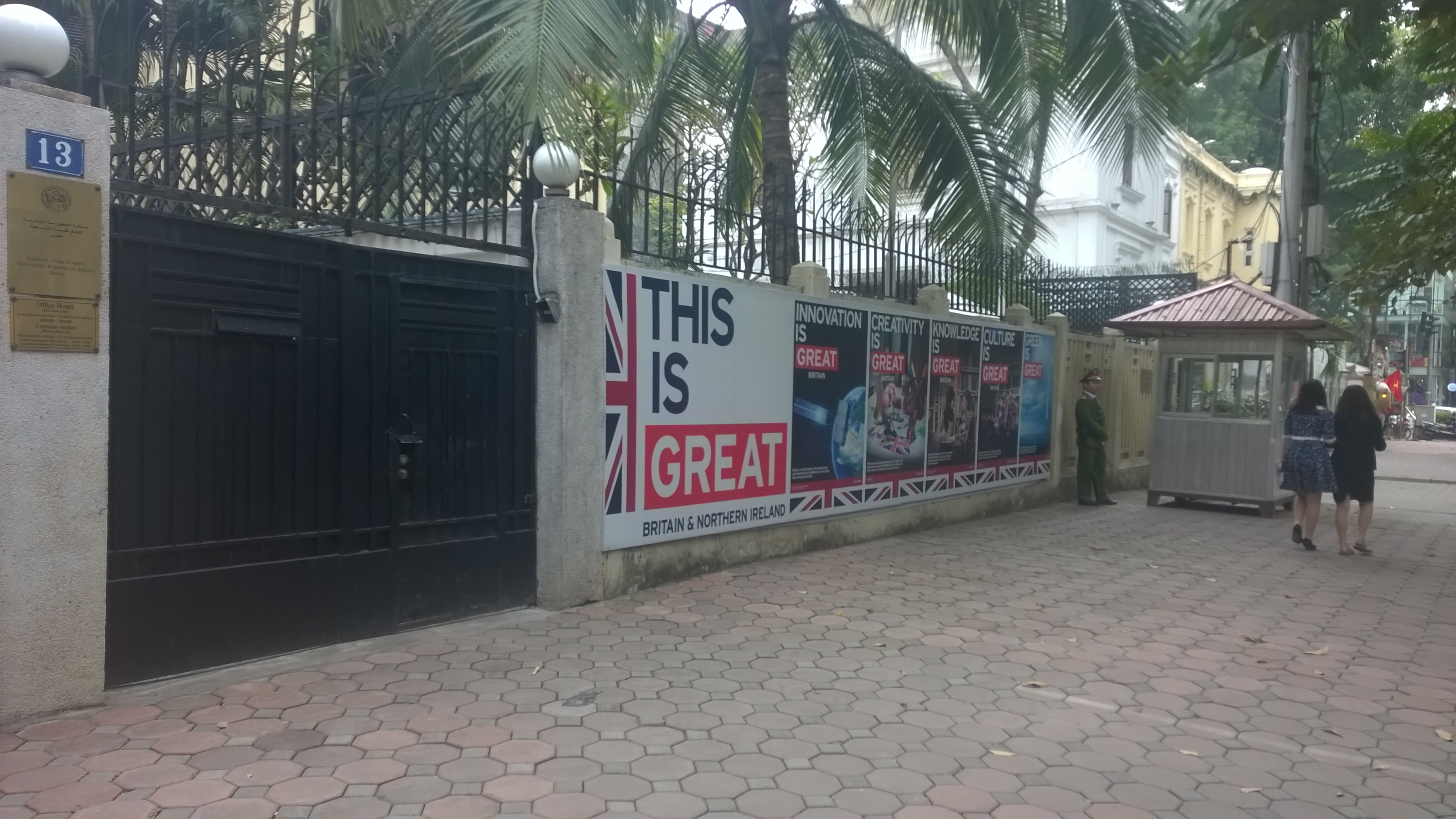 Posters proclaiming "This is Great --- Britain" at the British embassy in Hanoi.